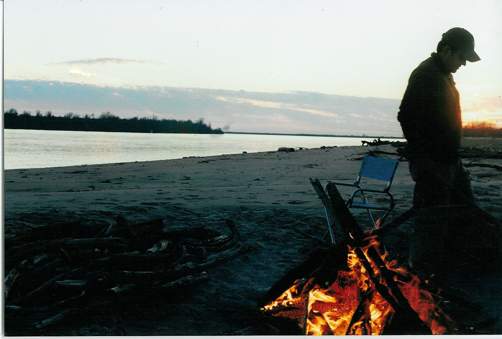 Canoers' campsite on a sandbar in the Mississippi River, near Old Town, Arkansas, and Friar's Point, Mississippi.